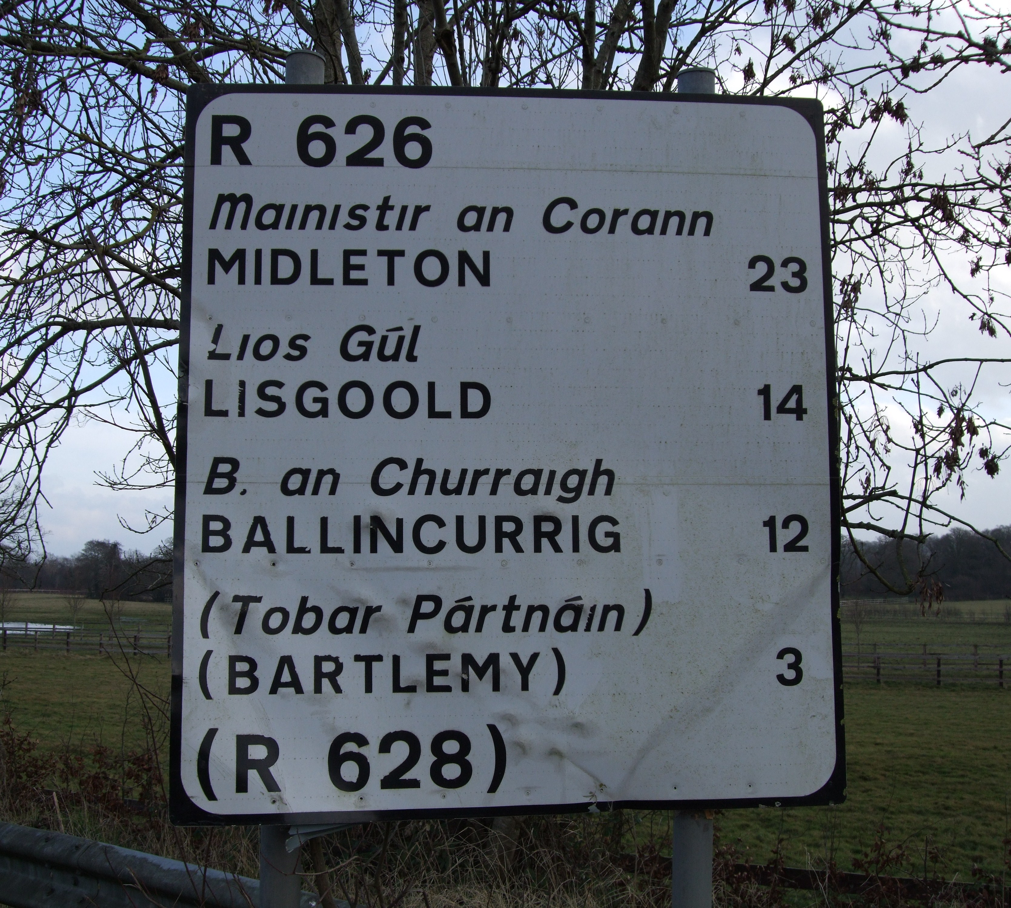 Route signage for the R626.